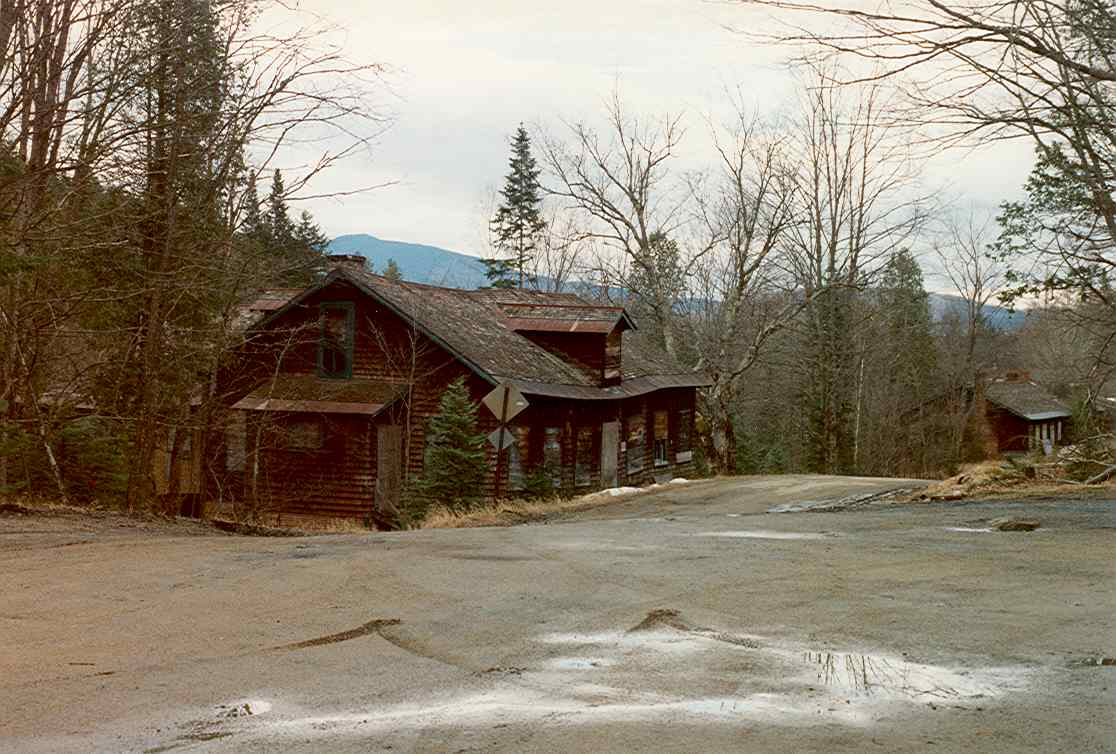 Adirondac village, Adirondacks, NY, in 1994